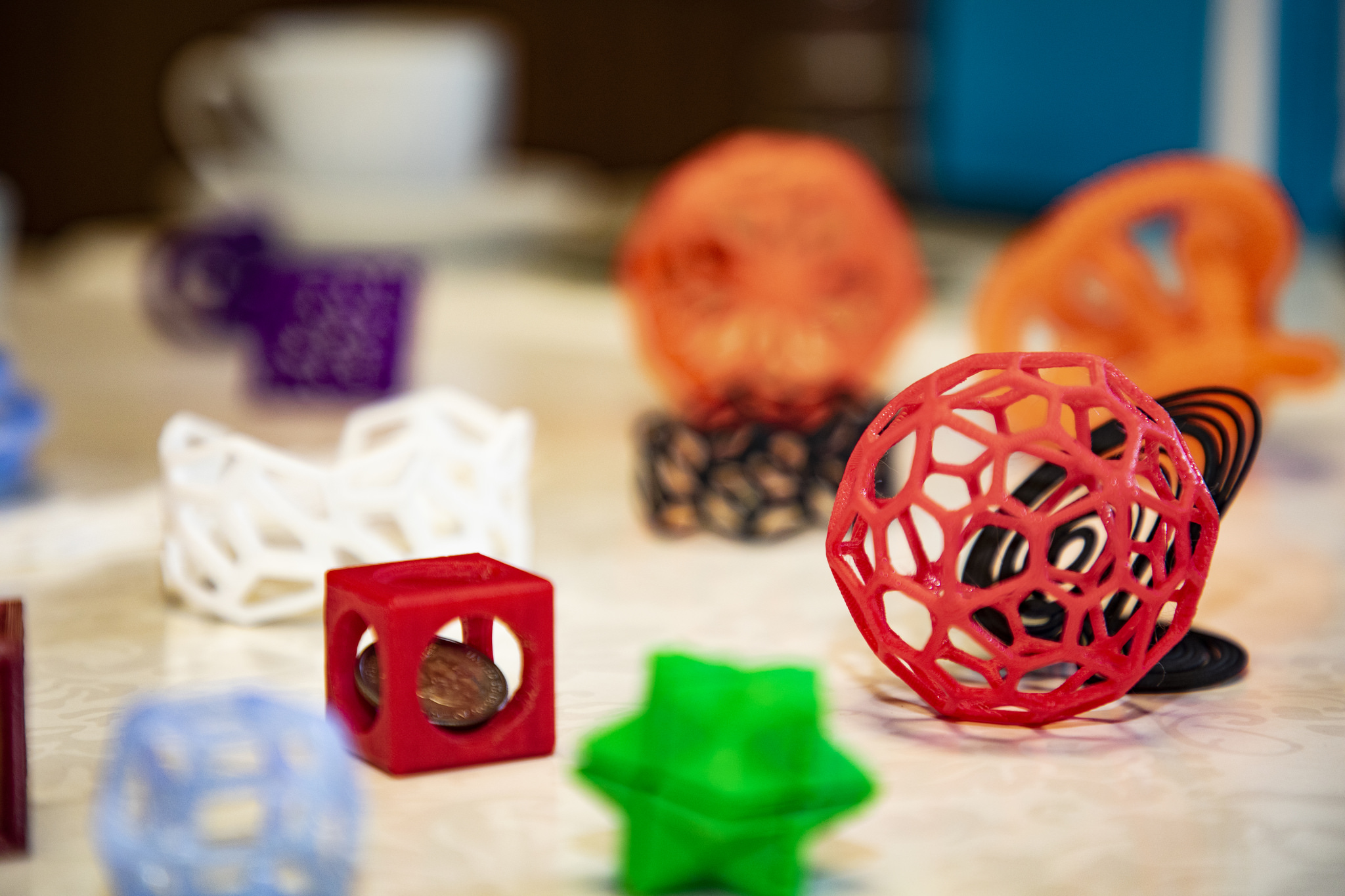 "3D Printing and Mathematics Guru, Laura Taalman, hosts STEM workshop in SA"